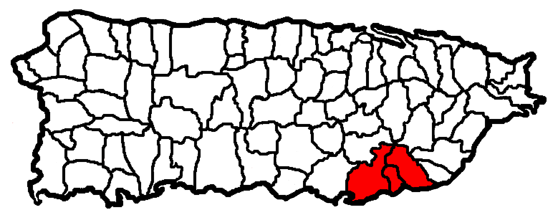 Map of Puerto Rico highlighting the Guayama Metropolitan Statistical Area. Created with the GIMP. Adapted from Image:Map_of_the_78_municipalities_of_Puerto_Rico.png by Alessandro Cai (OliverZena).